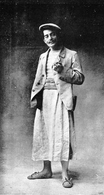 French operatic baritone Jean Périer (1869-1954) as Auguste in Alfred Bruneau's L'Enfant Roi.